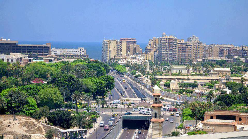 Suez Canal St. in Alexandria, Egypt